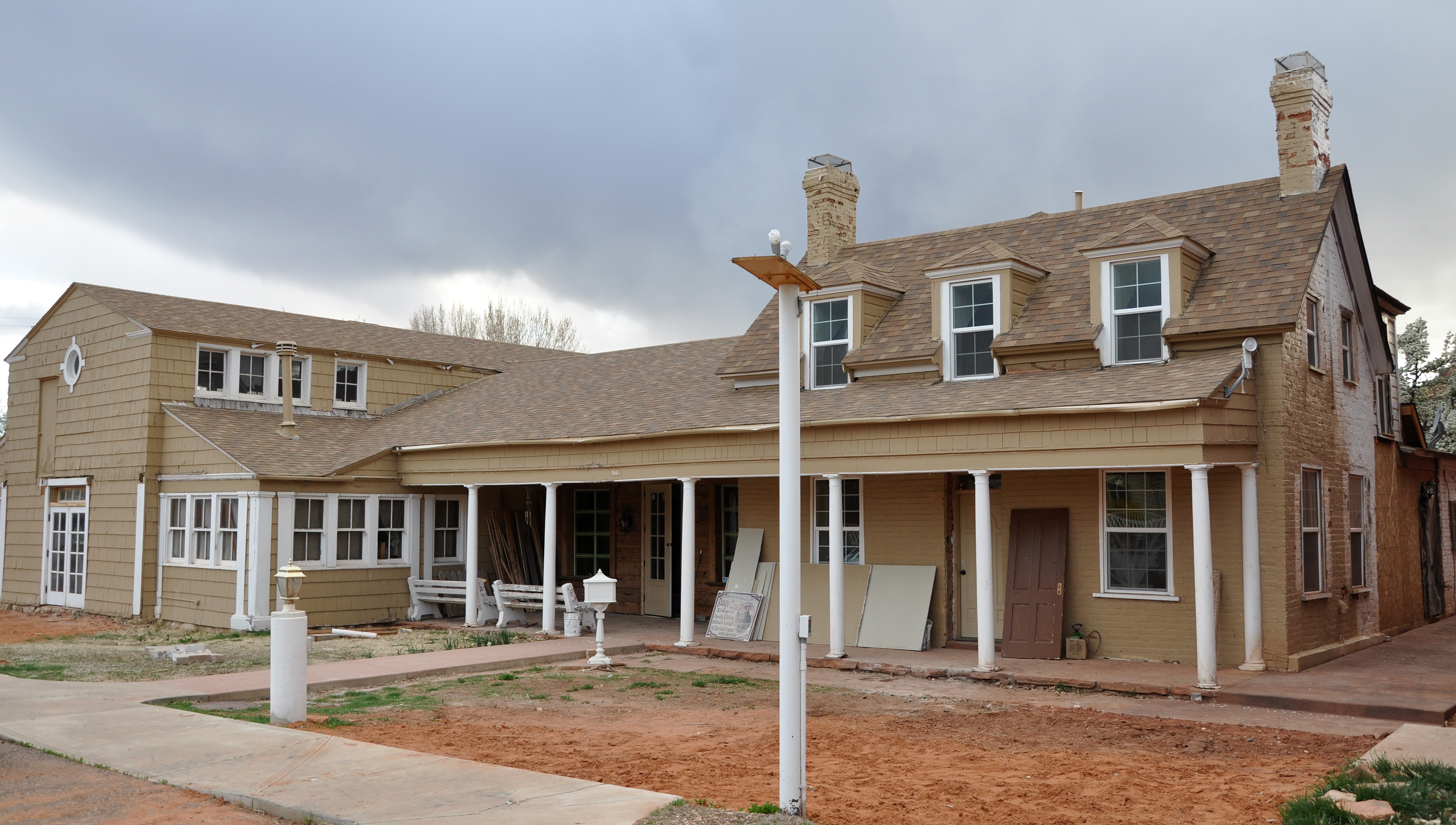 Kanab Lodge in Kanab in the U.S. state of Utah.